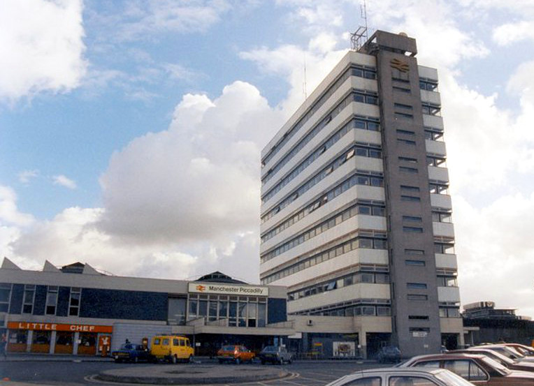 1960s frontage to Manchester Piccadilly station, seen in 1989.